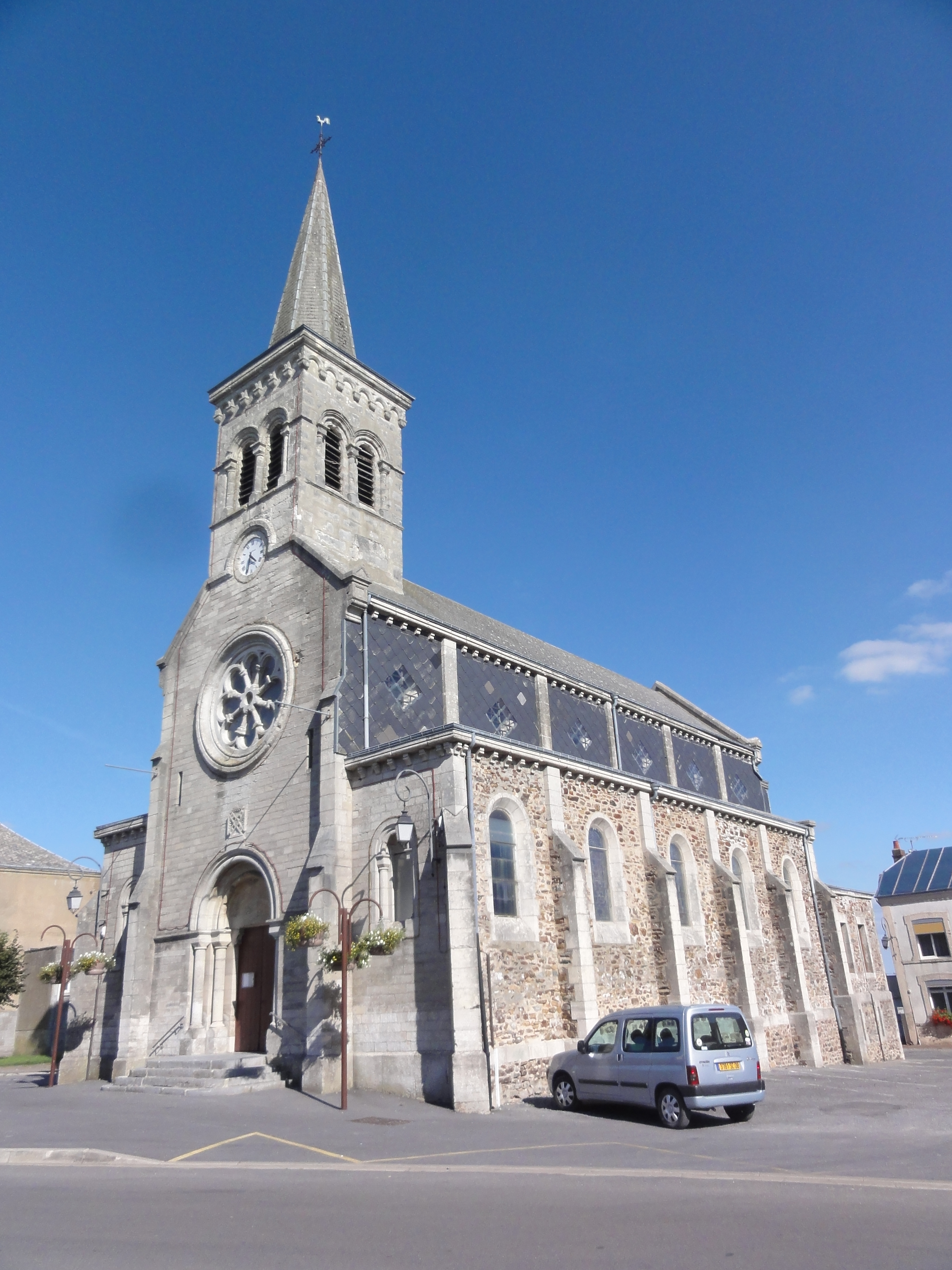 Bourg-Fidèle (Ardennes) église